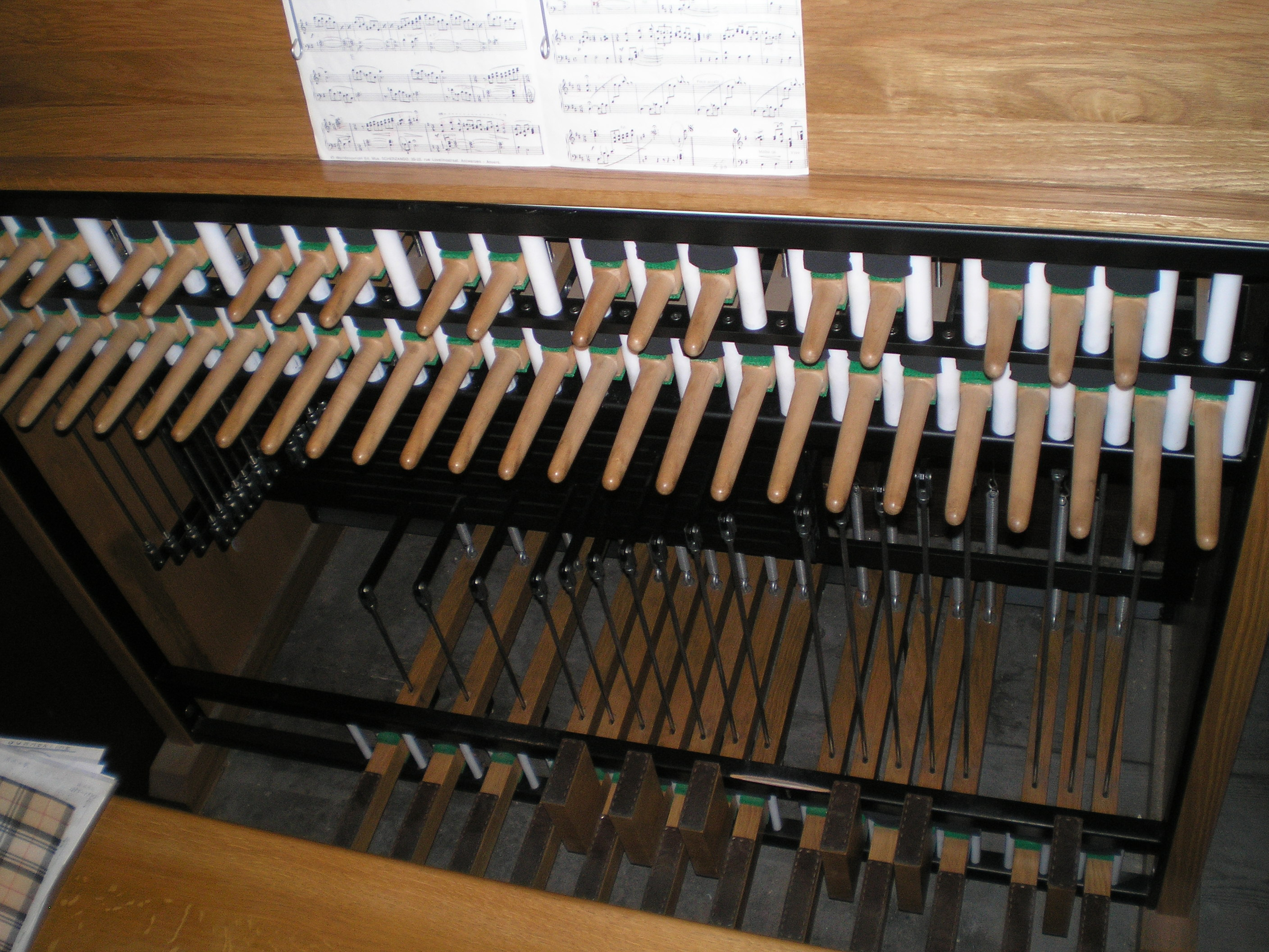 Carillon in the tower of the Alte Nikolaikirche, in Frankfurt am Main, Germany.